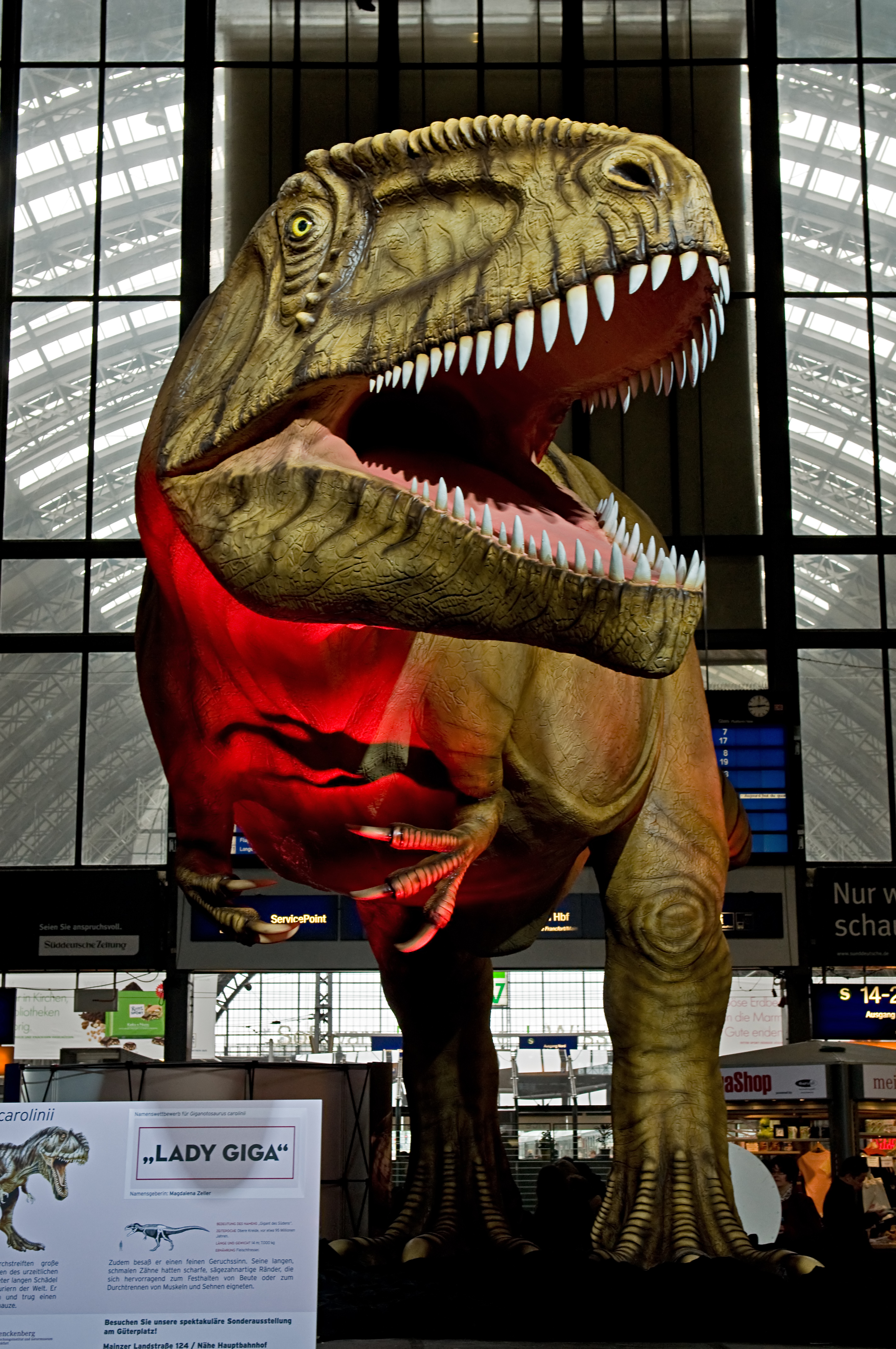 Lady Giga – model of a Giganotosaurus carolinii in the vestibule of the central station in Frankfurt am Main